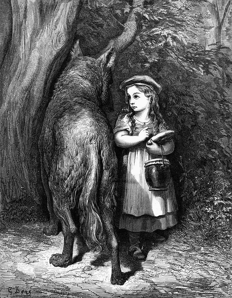 Red Riding Hood meets old father wolf. Untitled illustration from Les Contes de Perrault, an edition of Charles Perrault's fairy tales illustrated by Gustave Dore, originally published in 1862 (source). Link to the page with the illustration in an online eBook edition of the original book.